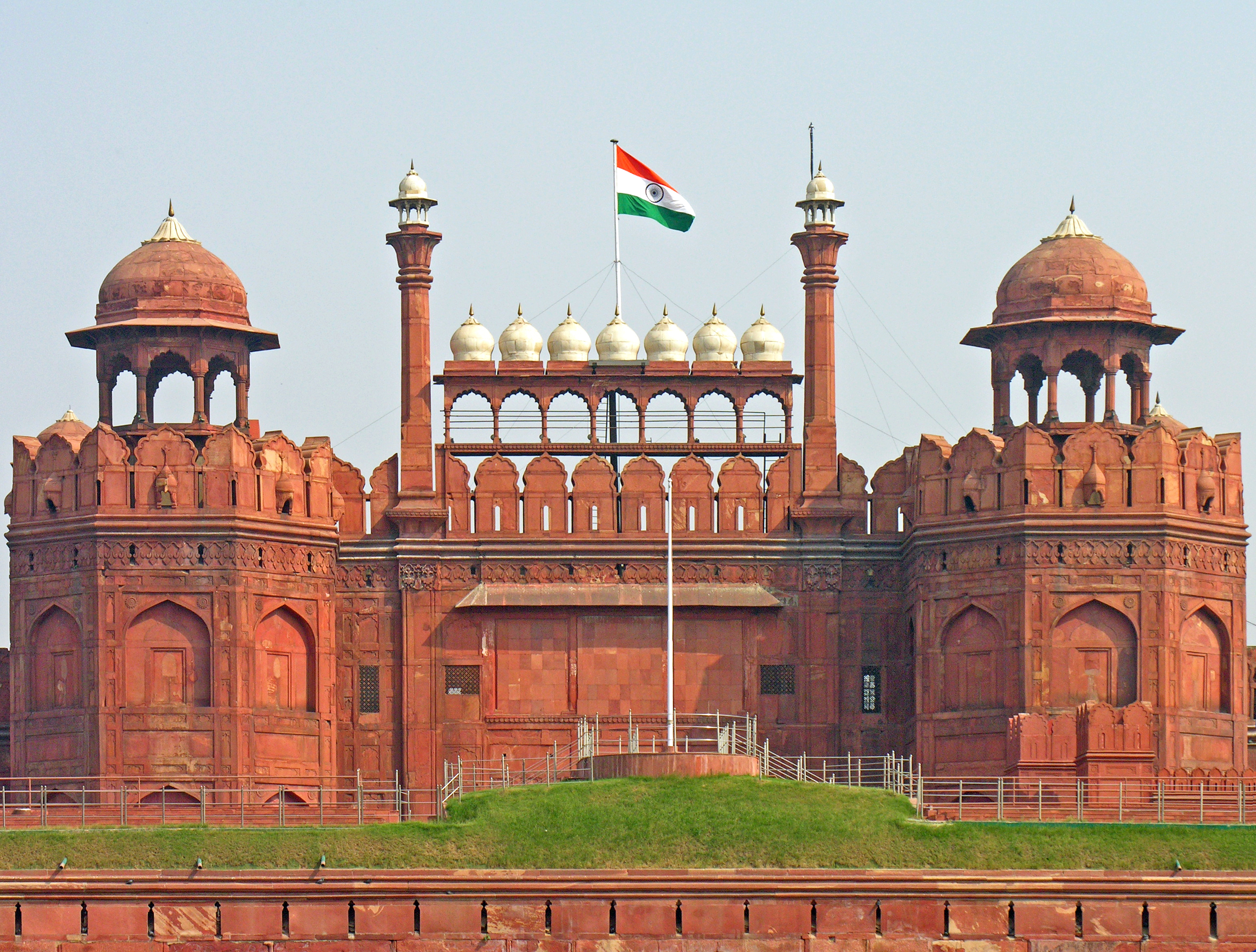 Red Fort - Closer view of the top part of the gate above the Meena Bazaar. Delhi, India